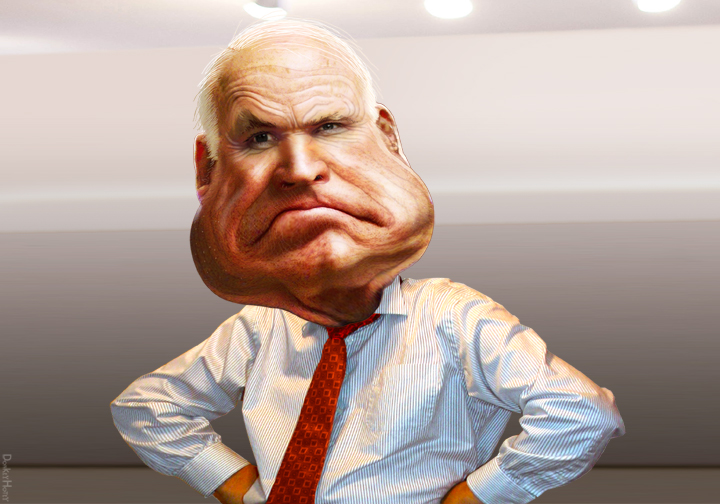 "Neener, neener, neener!" John Sidney McCain III , aka John McCain, is a Republican United States Senator from Arizona. He was the Republican presidential nominee in the 2008 United States election. The source image for this caricature of Senator John McCain is Creative Commons licensed photo from Marc Nozell's Flickr photostream .